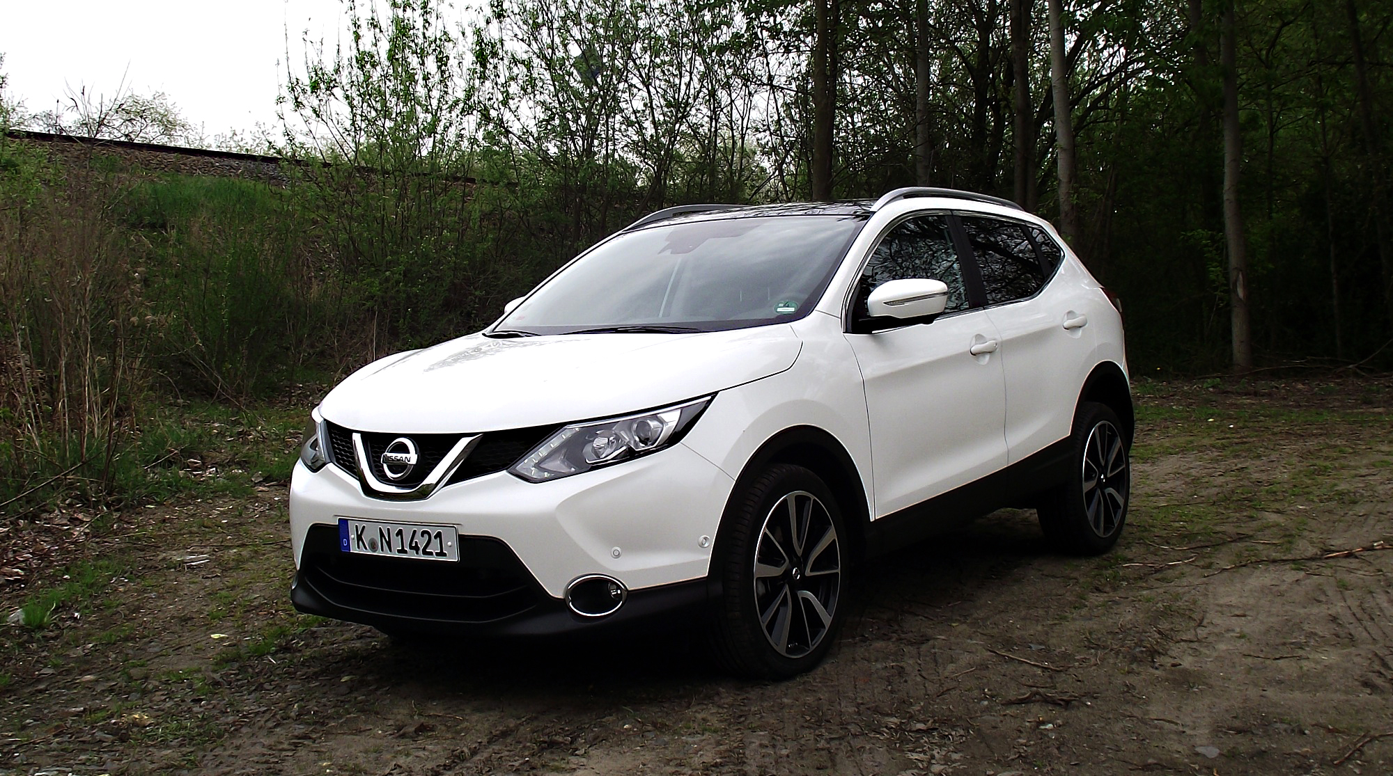 Nissan Qashqai 1.6 dCi ALL-MODE 4x4i Tekna Qab Pearl White Metallic Front View